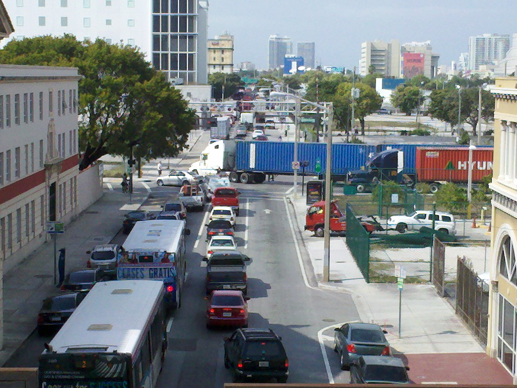 This was not normal congestion, the truck in the middle of the intersection broke down when its front right wheel fell off.